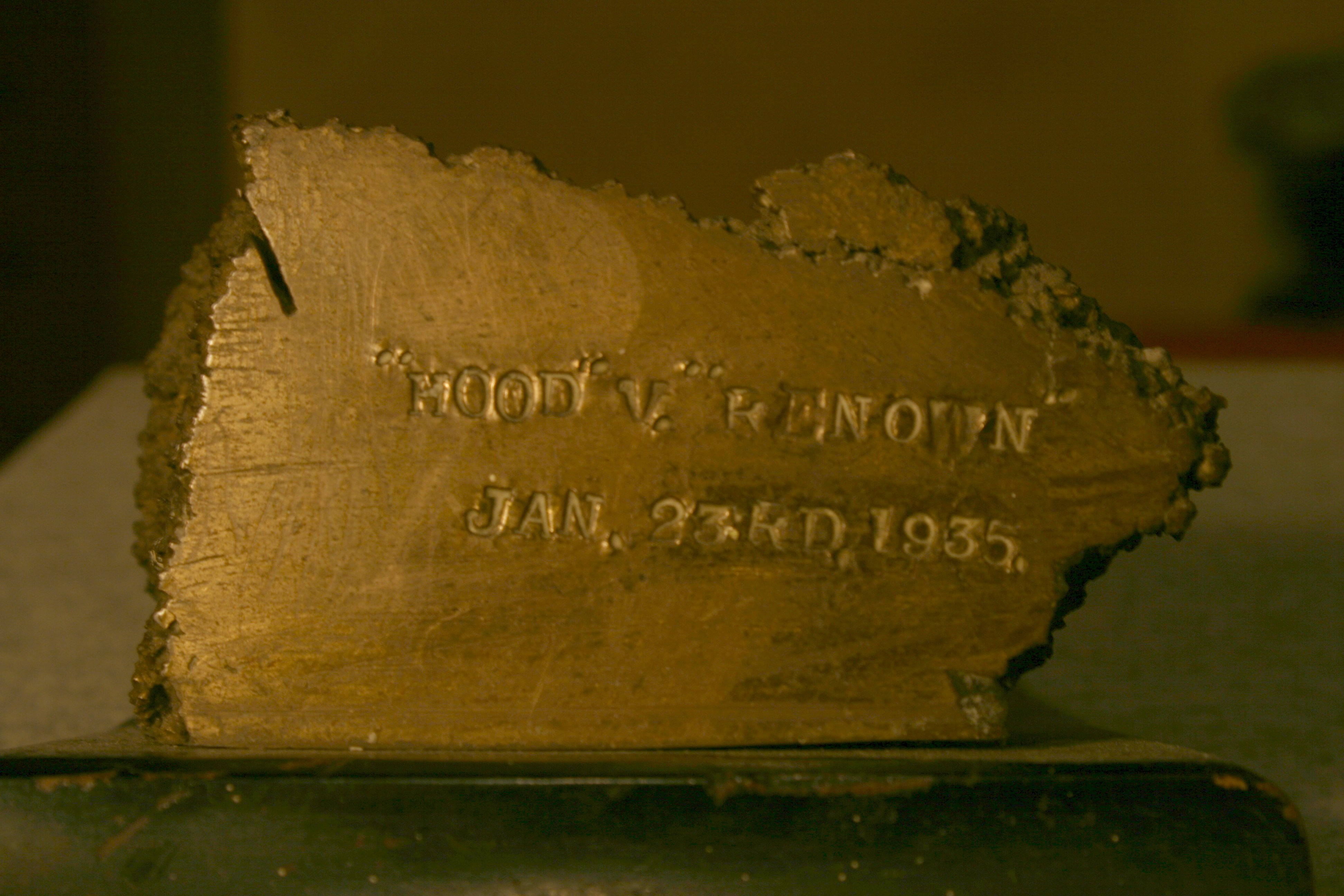 Hms Hood vs HMS Renown 1935 picture of propeller nugget As a result of a collision off the coast of Spain on 23 January 1935, one of Hood's propellers struck the bow of Renown. While dry-docked for repairs, Renown had fragments of this propeller removed from her bilge section. The pieces of the propeller were kept by dockyard workers: "Hood" v "Renown" Jan. 23rd. 1935 was stamped on one surviving example, and "Hood V Renown off Arosa 23–1–35" on another. Of the known surviving pieces, one is privately held and another was given by the Hood family to the Hood Association in 2006. Relics and Artefacts from Hood Recently a third piece has come to light in Glasgow, where the Hood was built. It is held by a private collector and stamped HMS HOOD v HMS RENOWN 23 1 35. HMS Hood v HMS Renown propeller fragment